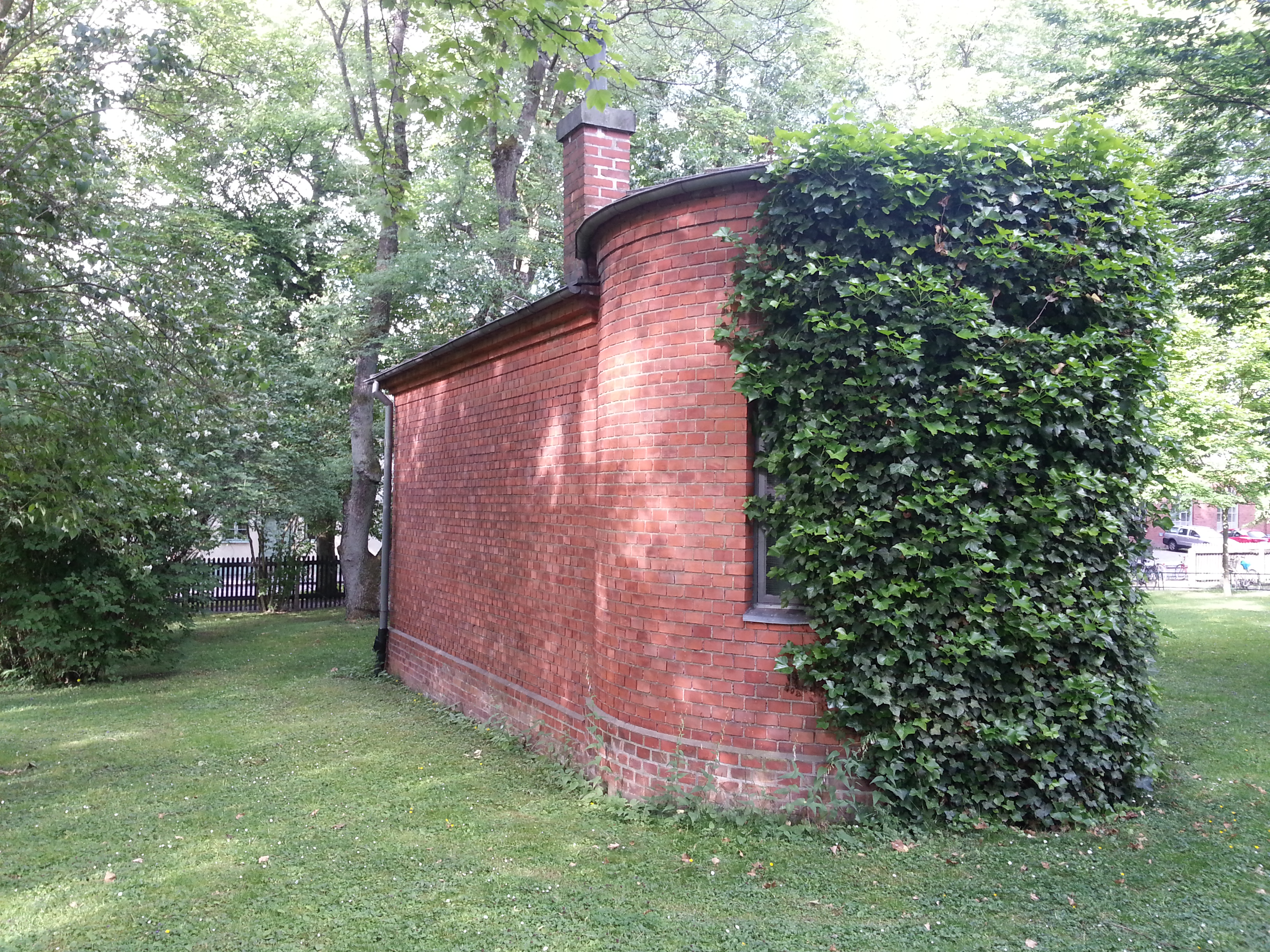 The building 'Donavit', belonging to Lund university, Lund, Sweden.